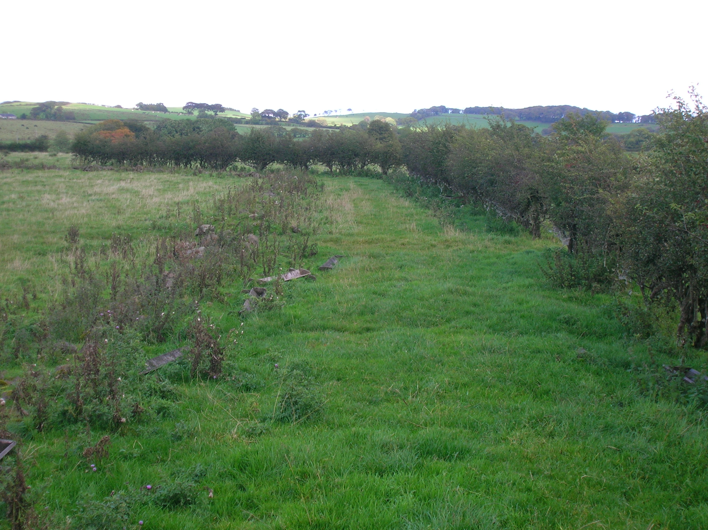 The entrance to the old Hill of Beith, Beith, Ayrshire, Scotland